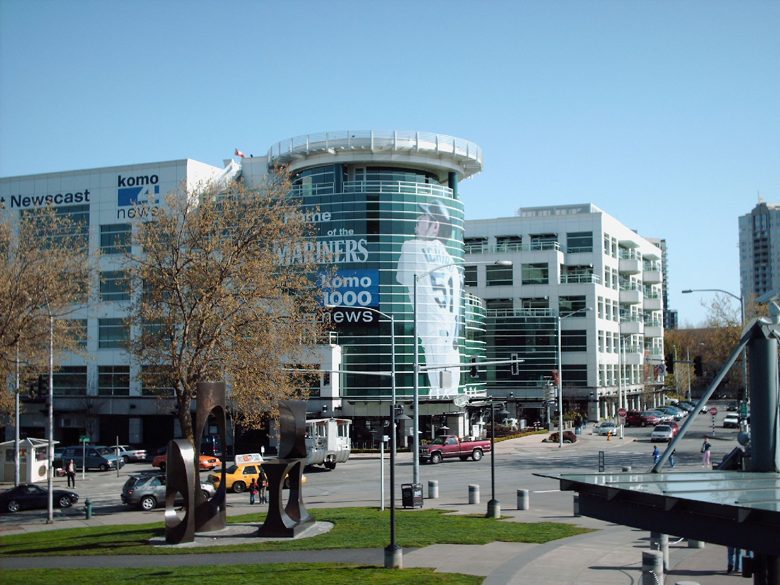 Fisher Plaza, Seattle, Washington. Headquarters of KOMO-TV.